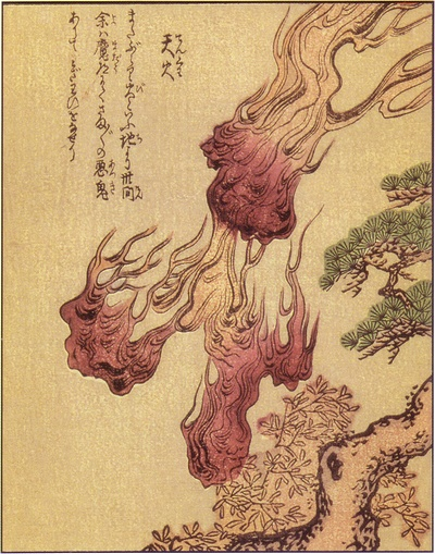 Tenka (天火) from the Ehon Hyaku Monogatari (絵本百物語)